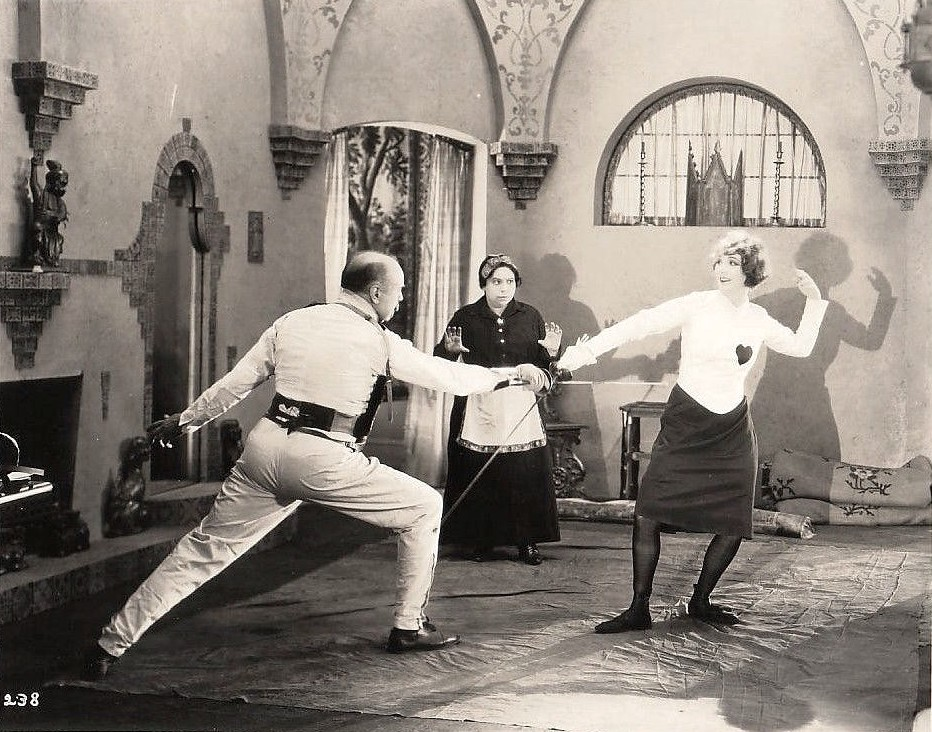 Footlights, 1921. Elsie Ferguson fencing with director Robertson